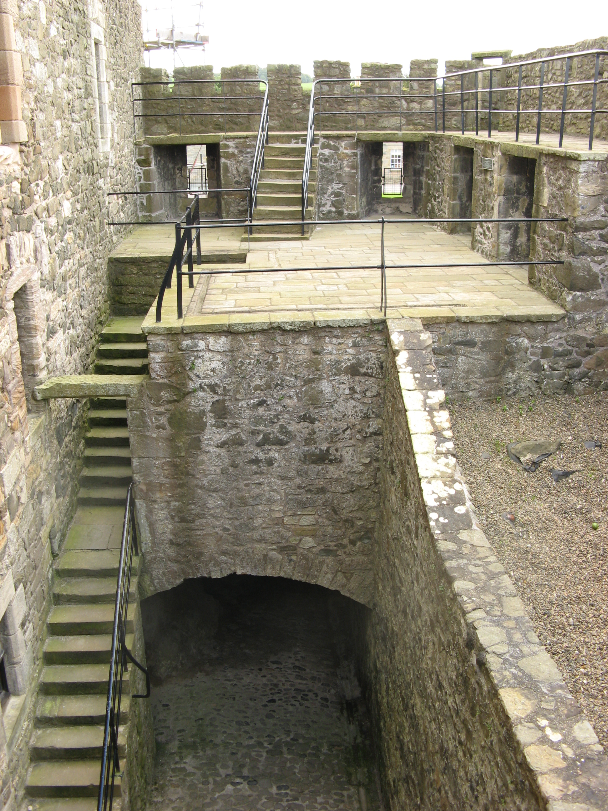 Interior view of the forework or spur, Blackness Castle, Scotland